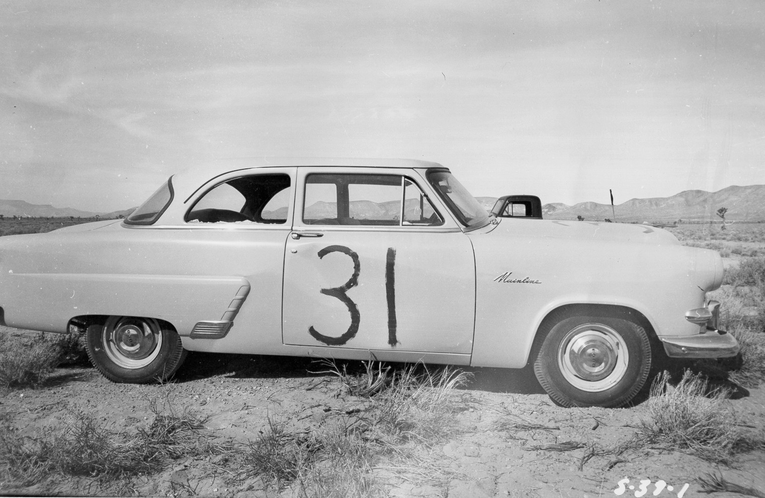 Damaged vehicle No. 31